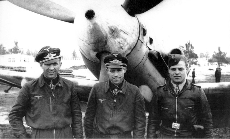 Theodor Weissenberger, Heinrich Ehrler and Rudolf Müller